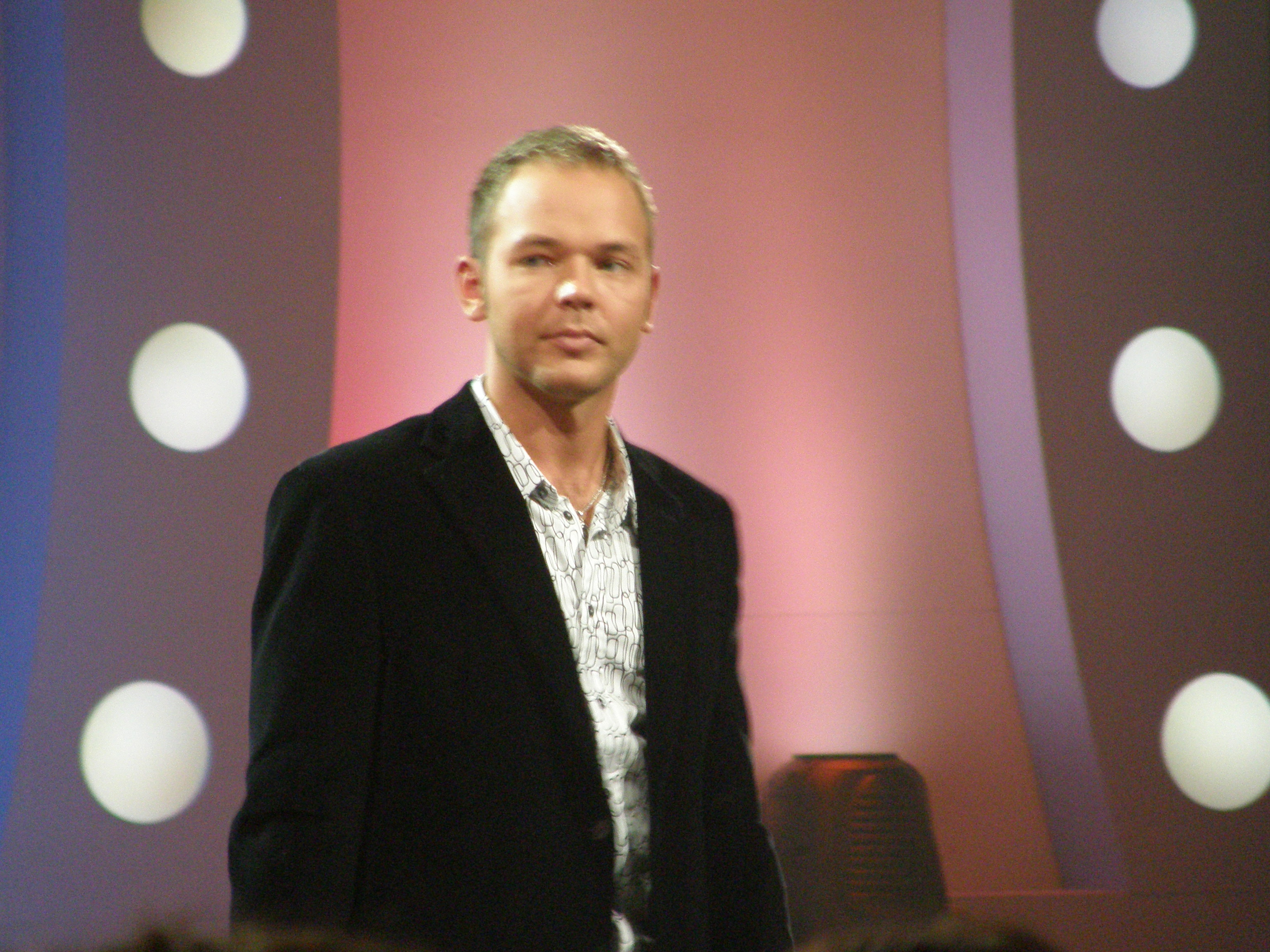 1 Lauris Reiniks hosting "Clash of the Choirs (Latvia)", 2008-11-09